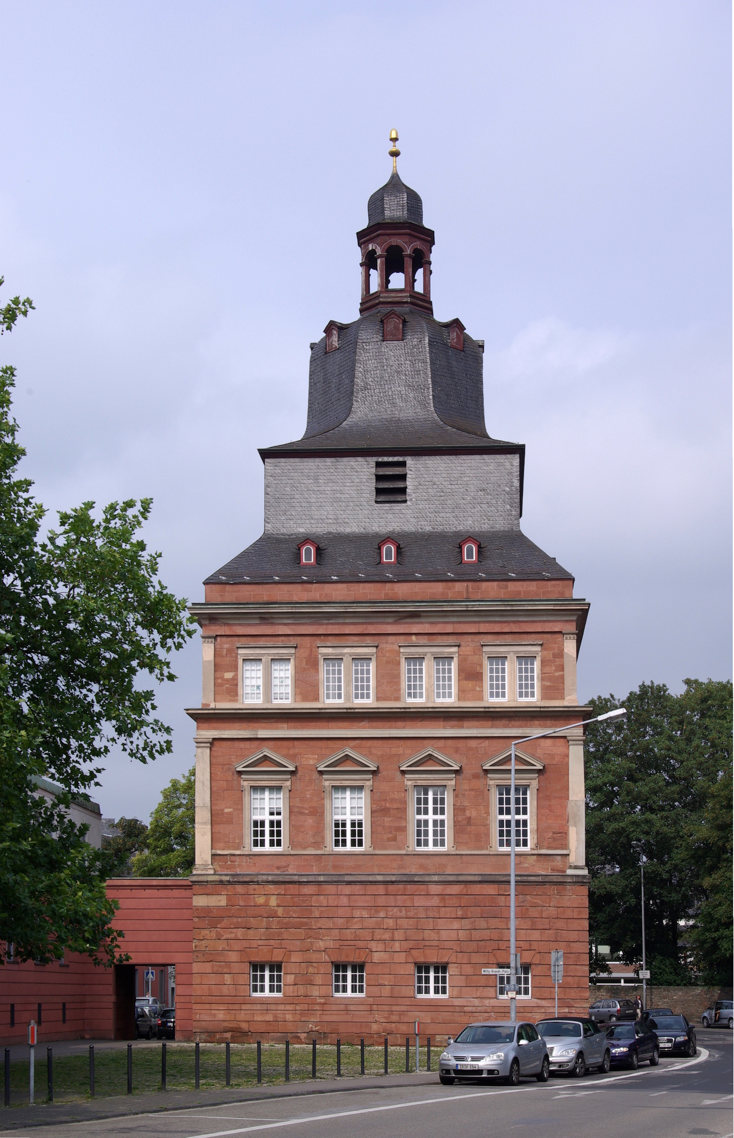 Germany, Trier, "Red Tower", 17. century